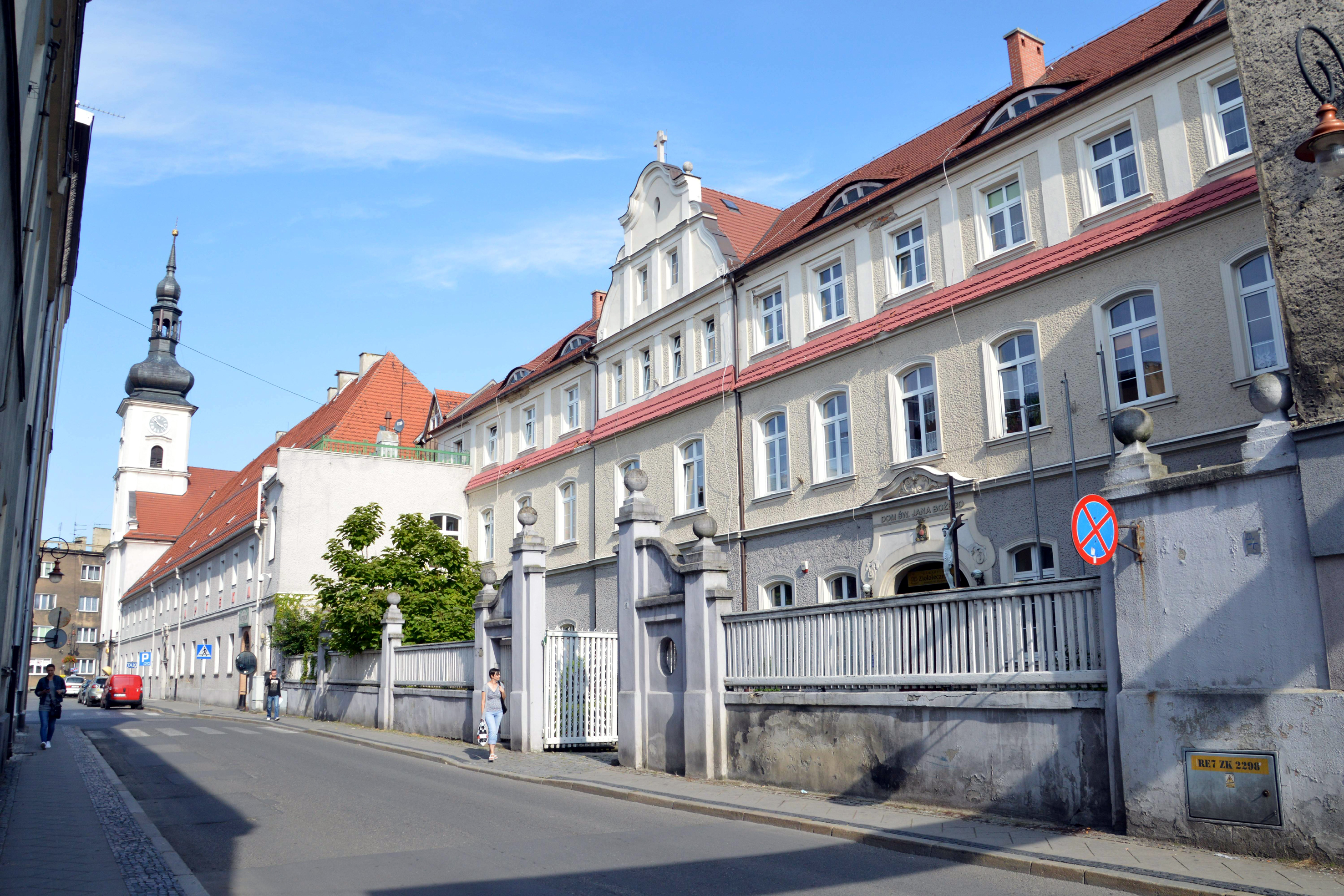 6 Piastowska Street in Prudnik, Poland. 02.2019.